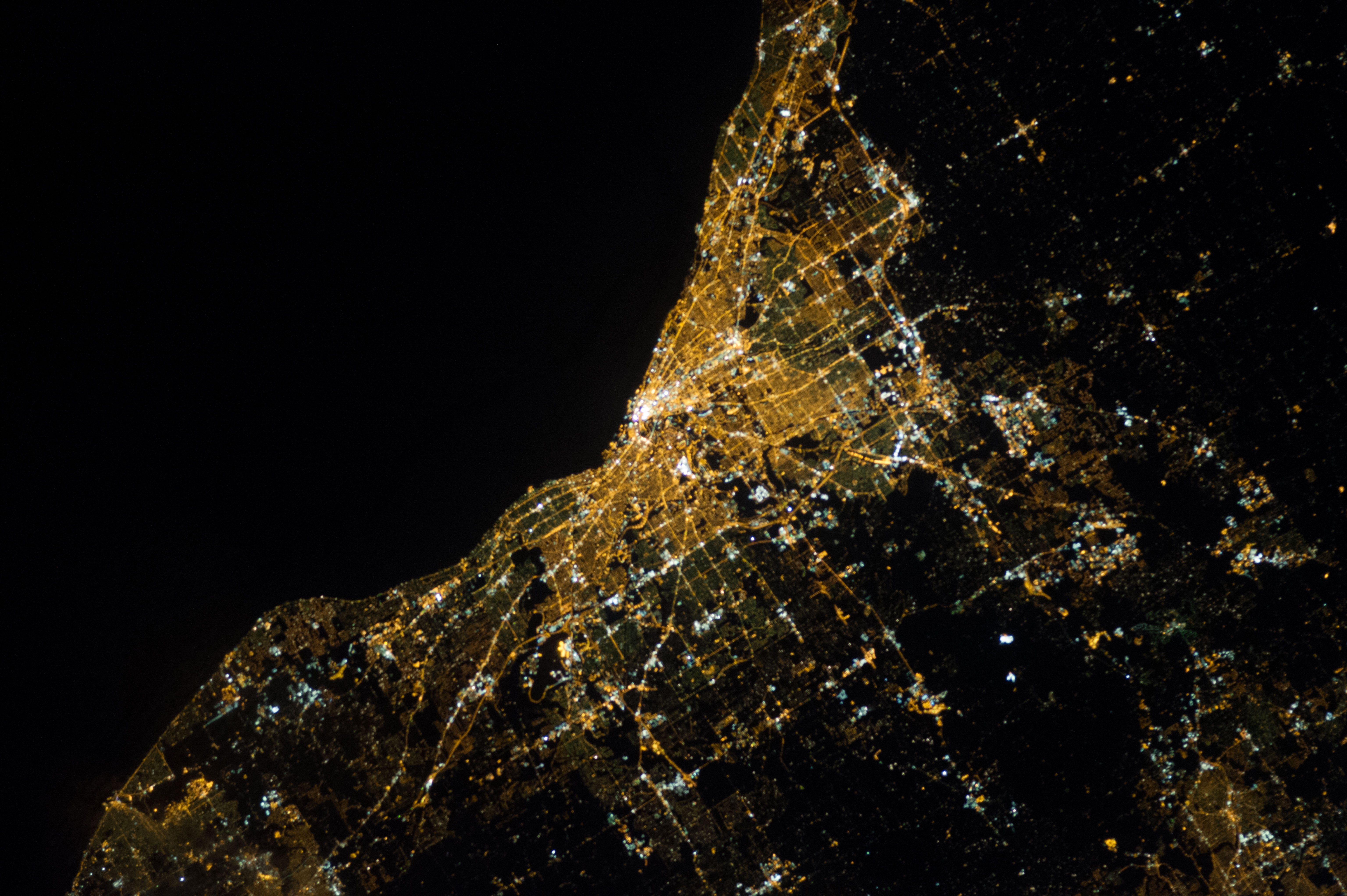 One of the Expedition 34 crew members aboard the International Space Station, flying at an altitude of approximately 240 miles, took this night view of Cleveland, Ohio on Feb. 10, 2013.